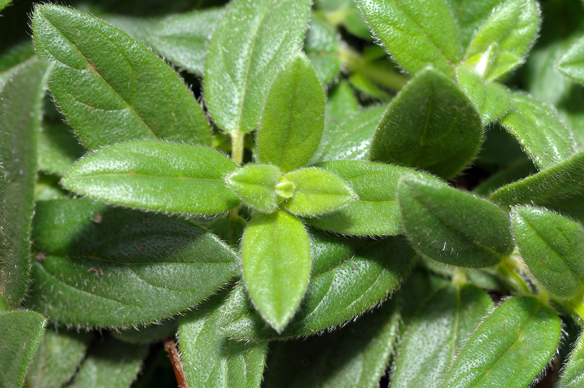 This image shows a Common Rock-rose (Helianthemum nummularium).